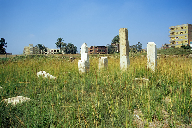 Chapel of Pepi I, Tell Basta, Egypt